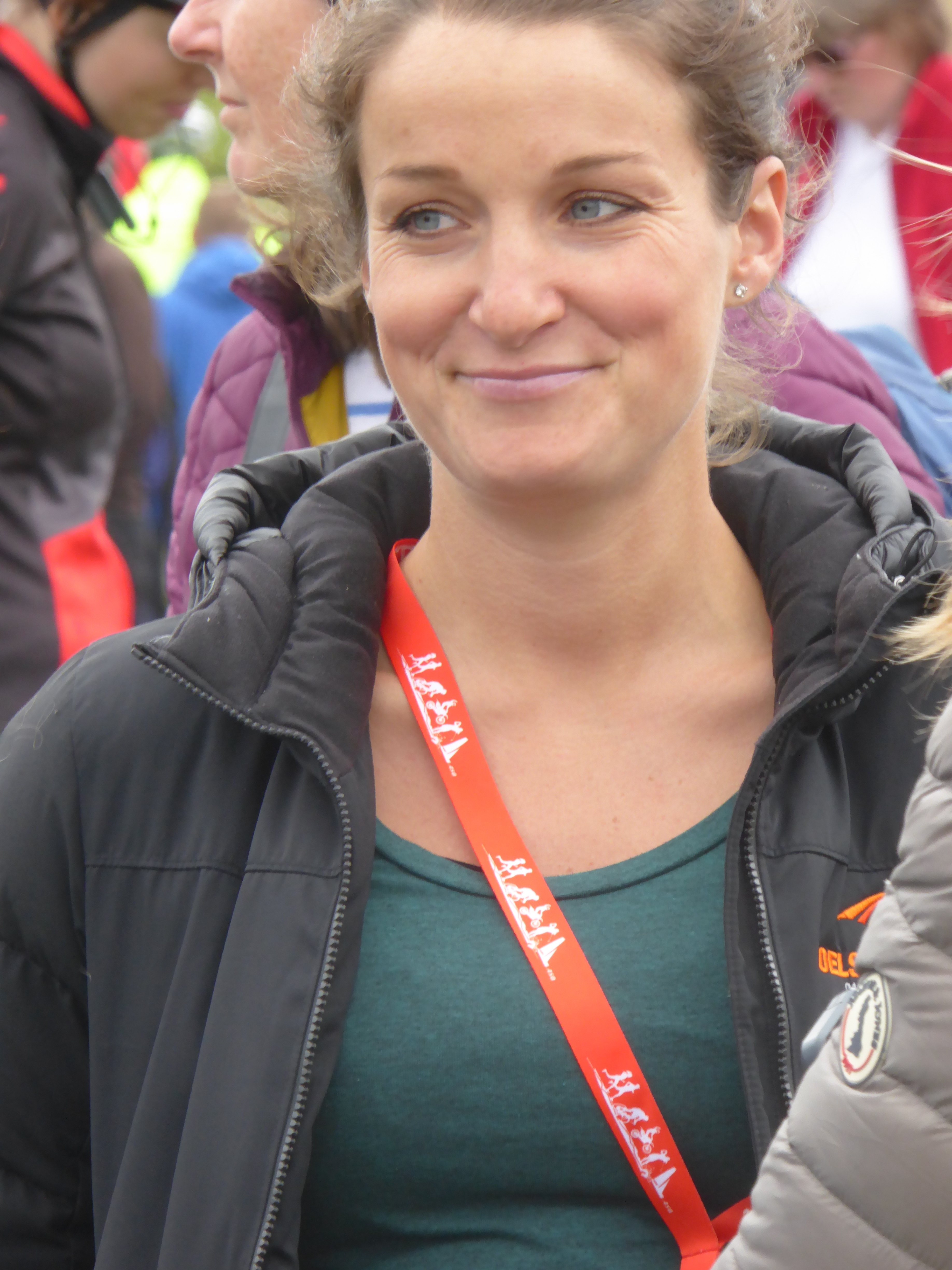 2017 race winner Lizzie Deignan (Boels-Dolmans), at the 2018 Women's Tour de Yorkshire. Deignan did not race due to pregnancy, and instead was part of ITV Sport's commentary team for the race.